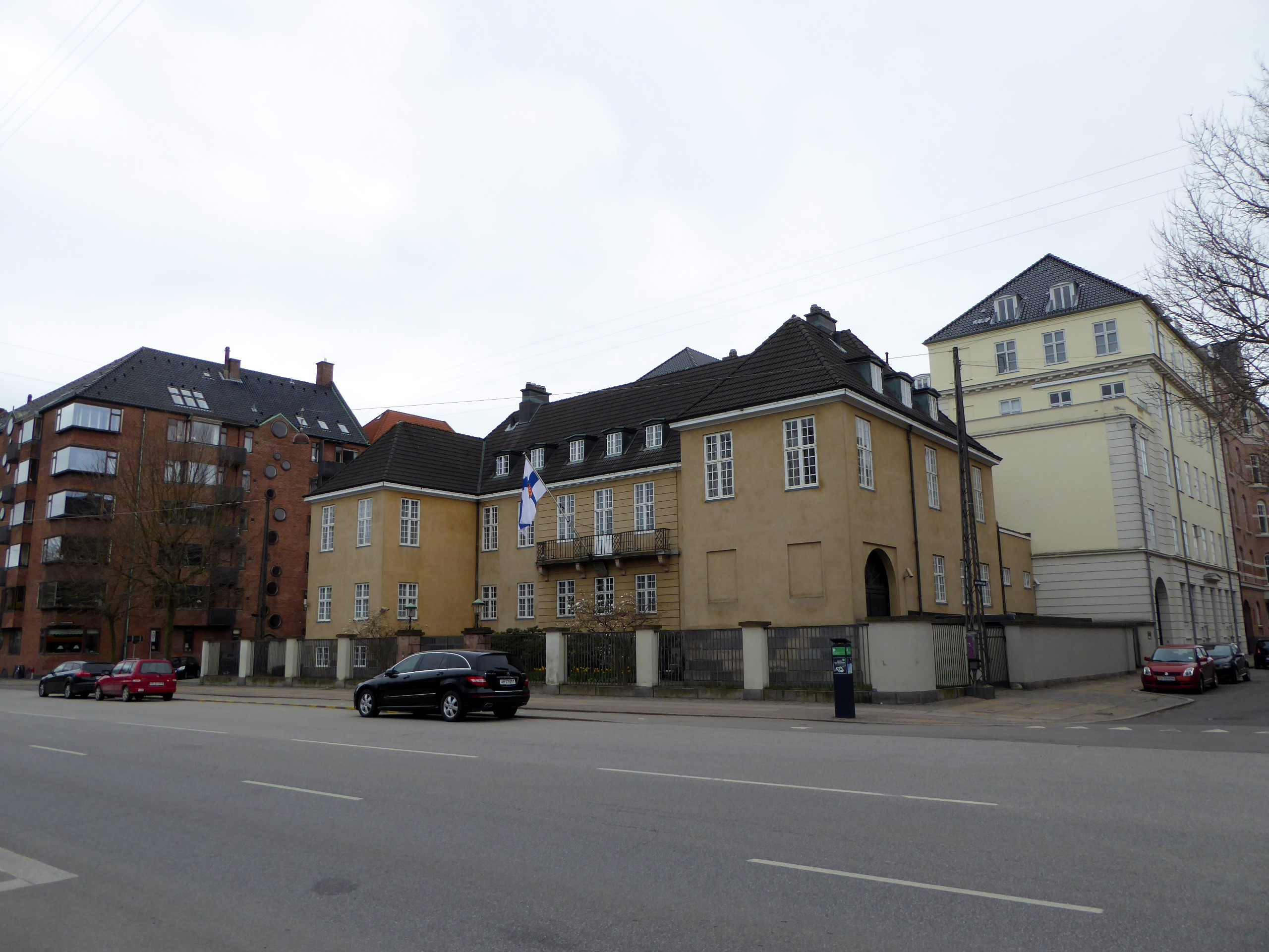 The ambassadorial residence of Finland at Grønningen in Indre By in Copenhagen.